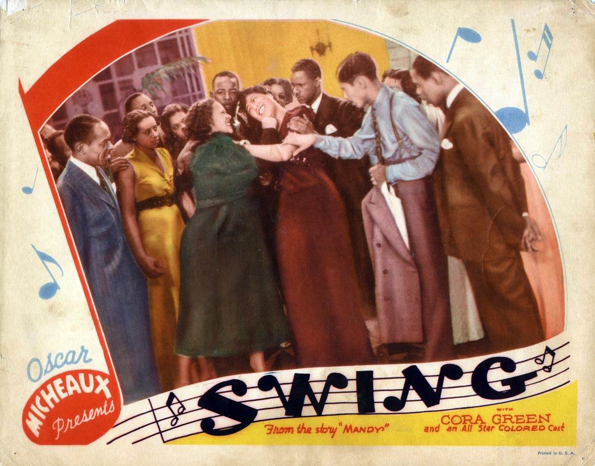 Lobby card for the 1939 film Swing!